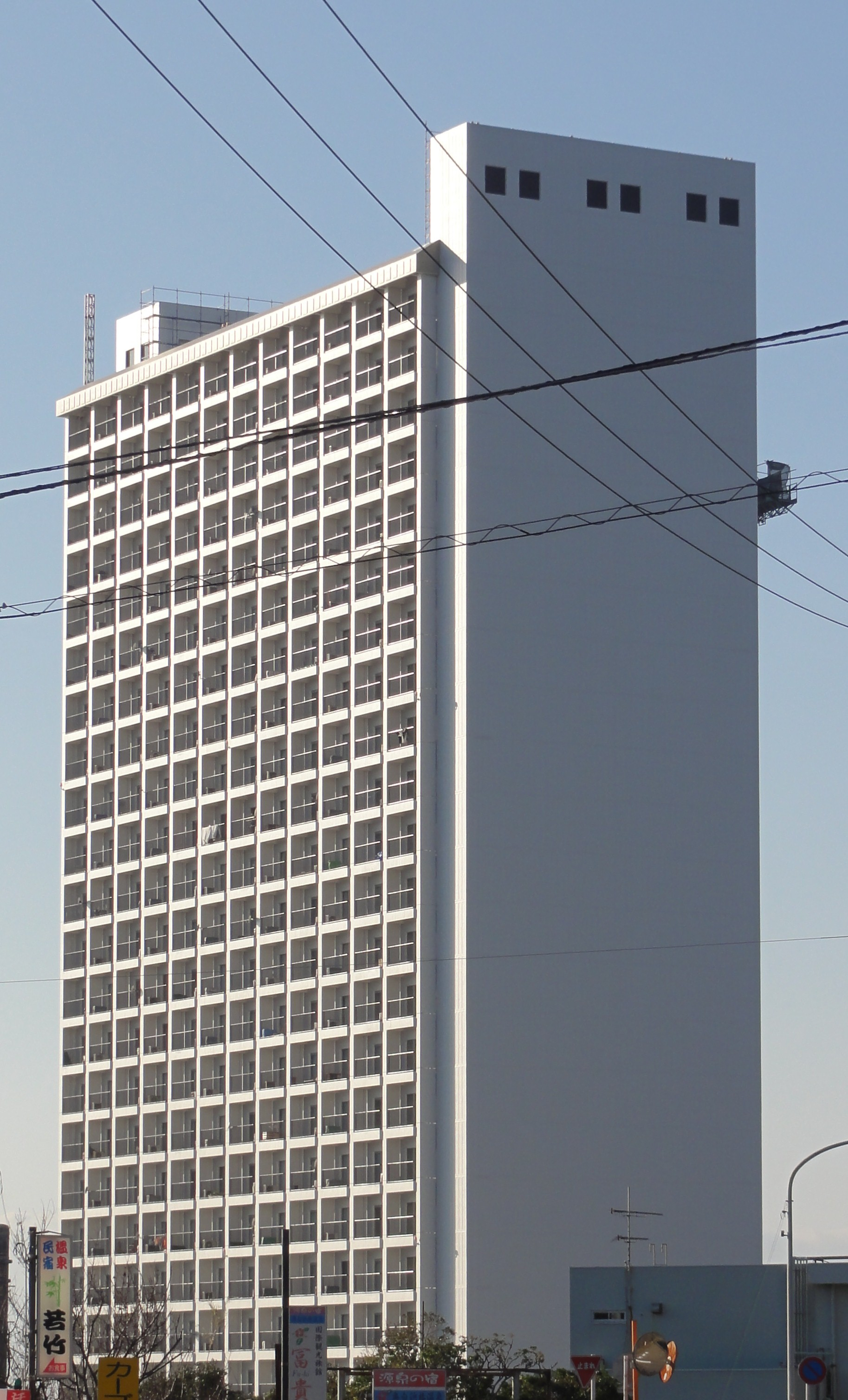 President tsubaki,Wakayama prefecture, Japan